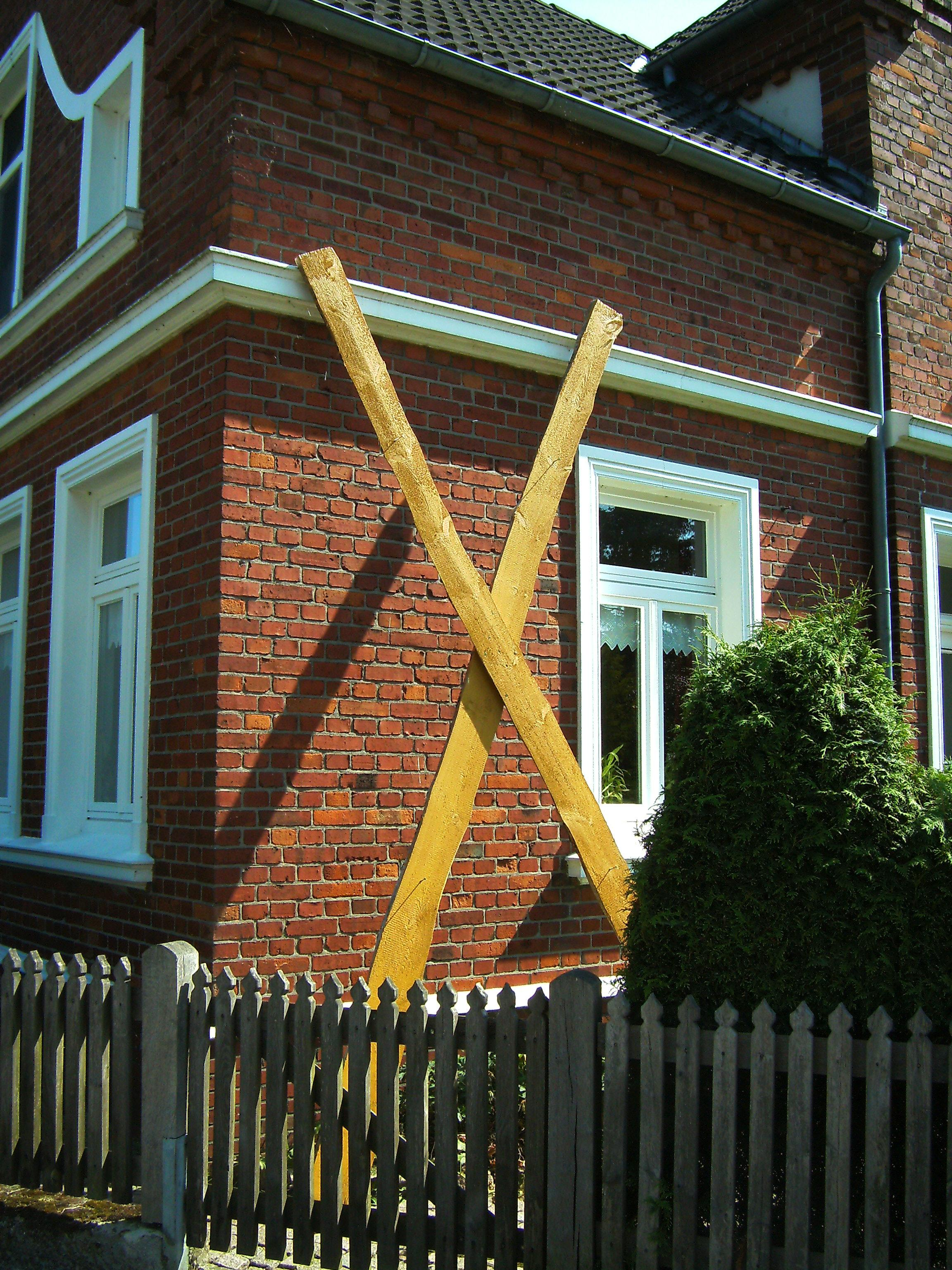 An "X" at a house in Wendland. The letter "X" is the sign of the anti-nuclear power movement in Wendland and can be found on many houses and trees.